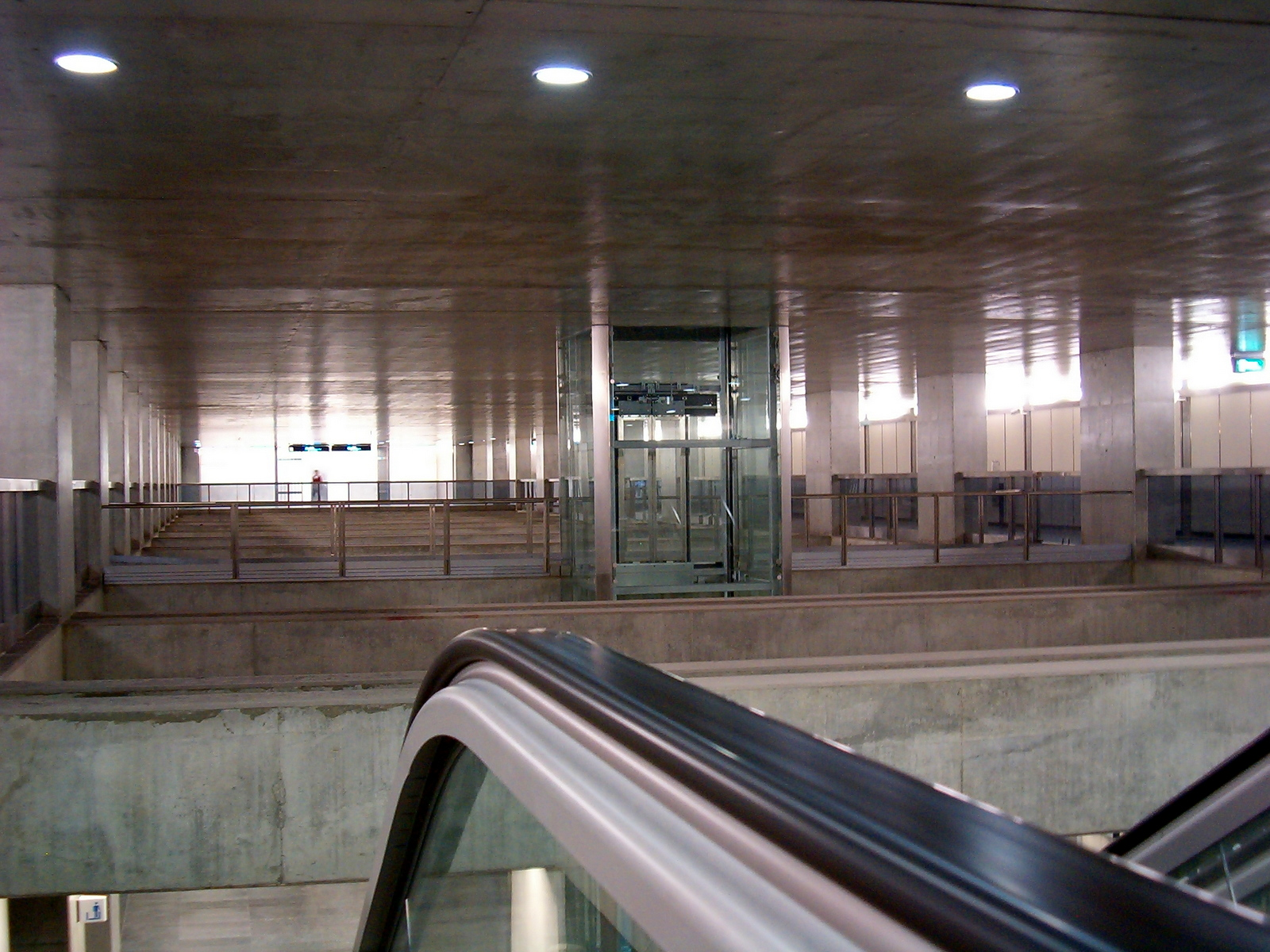 Metro station Terreiro do Paço (Lisboa)